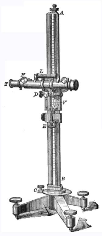 This is a sketch of a cathetometer.